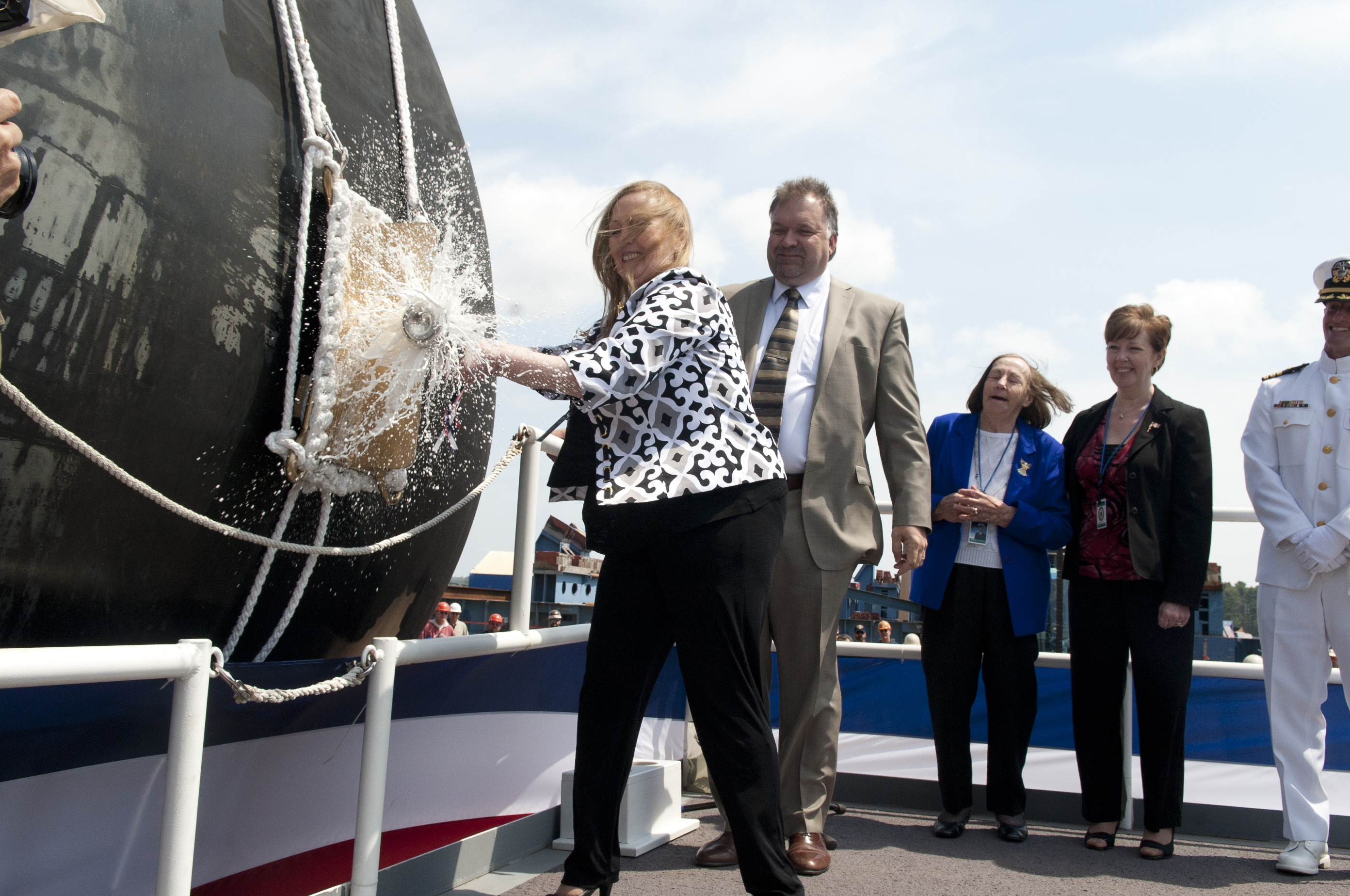 BATH, Maine (May 7, 2011) Maureen Murphy, mother of Lt. Michael Murphy (SEAL) and ship's sponsor, breaks a bottle of champagne across the bow of the Arleigh Burke-class guided-missile destroyer Pre-commissioning Unit (PCU) Michael Murphy (DDG 112) during the ship's christening ceremony at General Dynamics Bath Iron Works in Bath, Maine. Murphy was posthumously awarded the Medal of Honor for his actions during Operation Red Wings in Afghanistan in June 2005. He was the first Sailor awarded the Medal of Honor since the Vietnam War. (U.S. Navy photo by Mass Communication Specialist 2nd Class Dominique M. Lasco/Released)